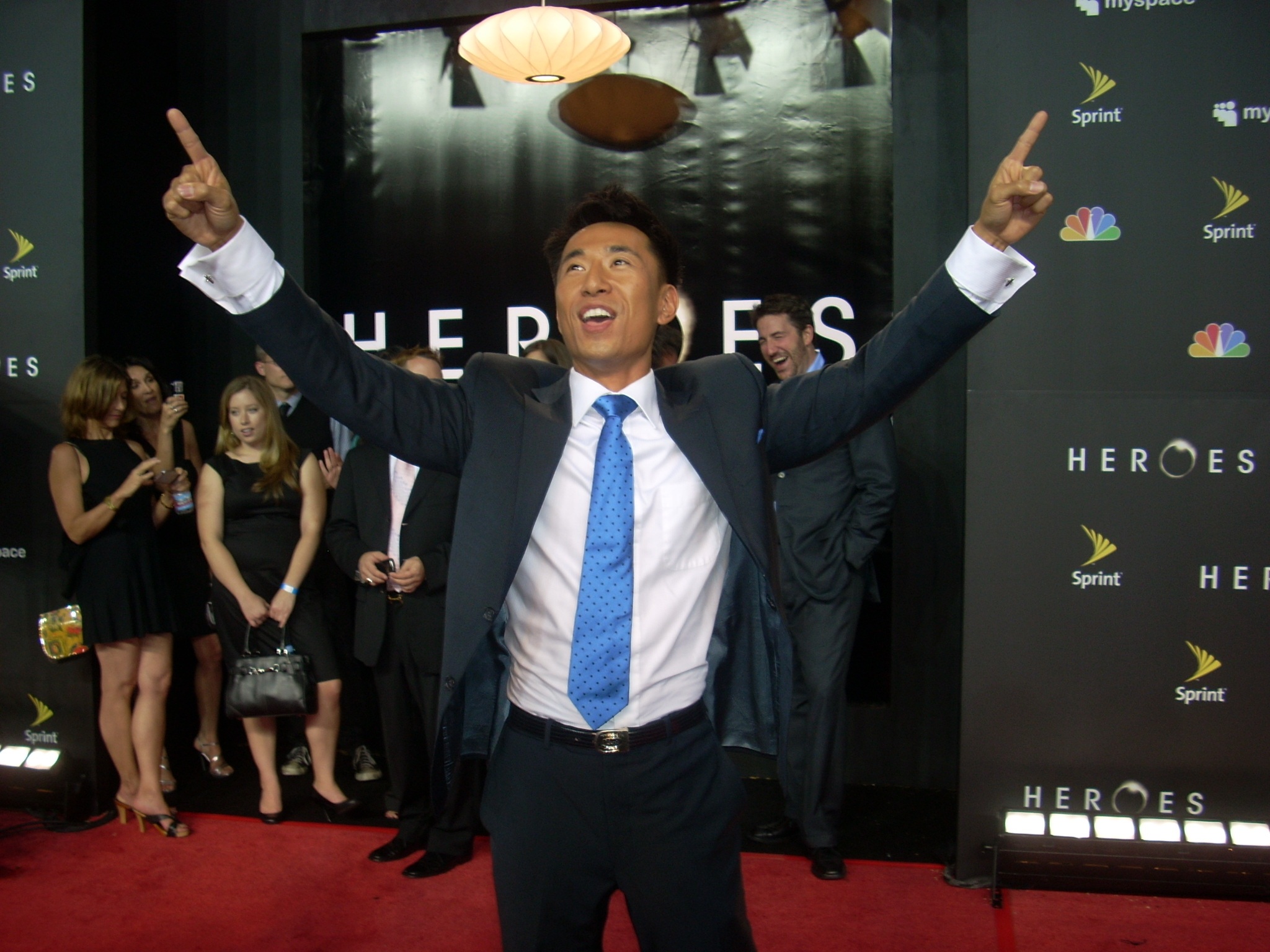 "Heroes" Season Three Premiere Party, Edison L.A., Downtown Los Angeles - Sept. 7, 2008